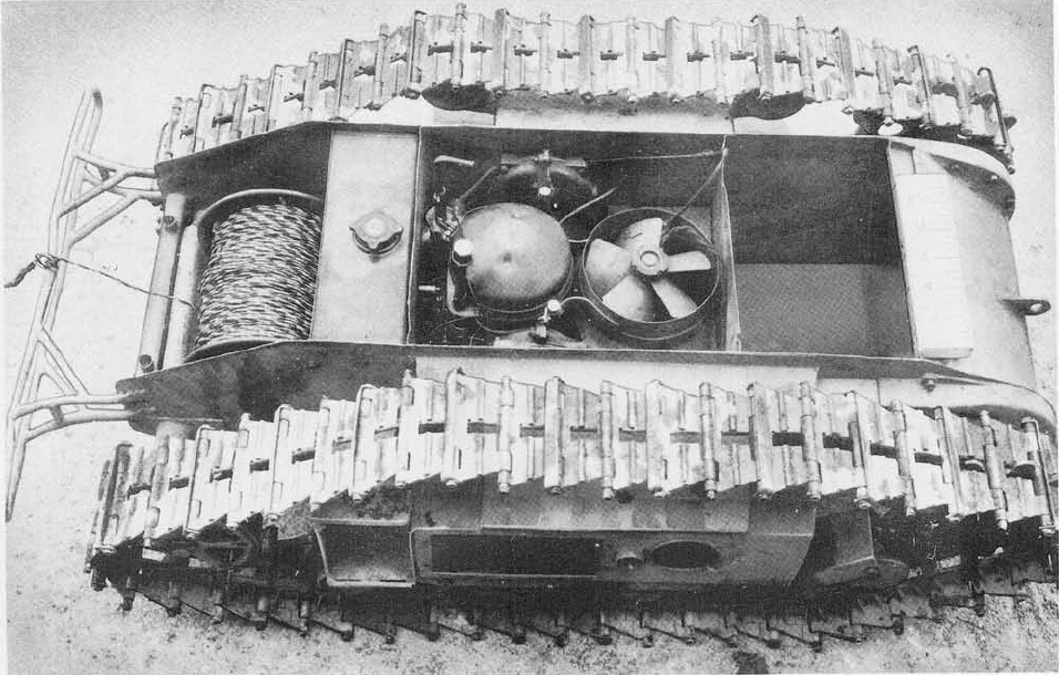 US Departmen of Ordnance - Catalog of Enemy Ordnance Manual Vol. 1 - 1945 GOLIATH German remote controlled tracked vehicle opened, interior, fuel powered